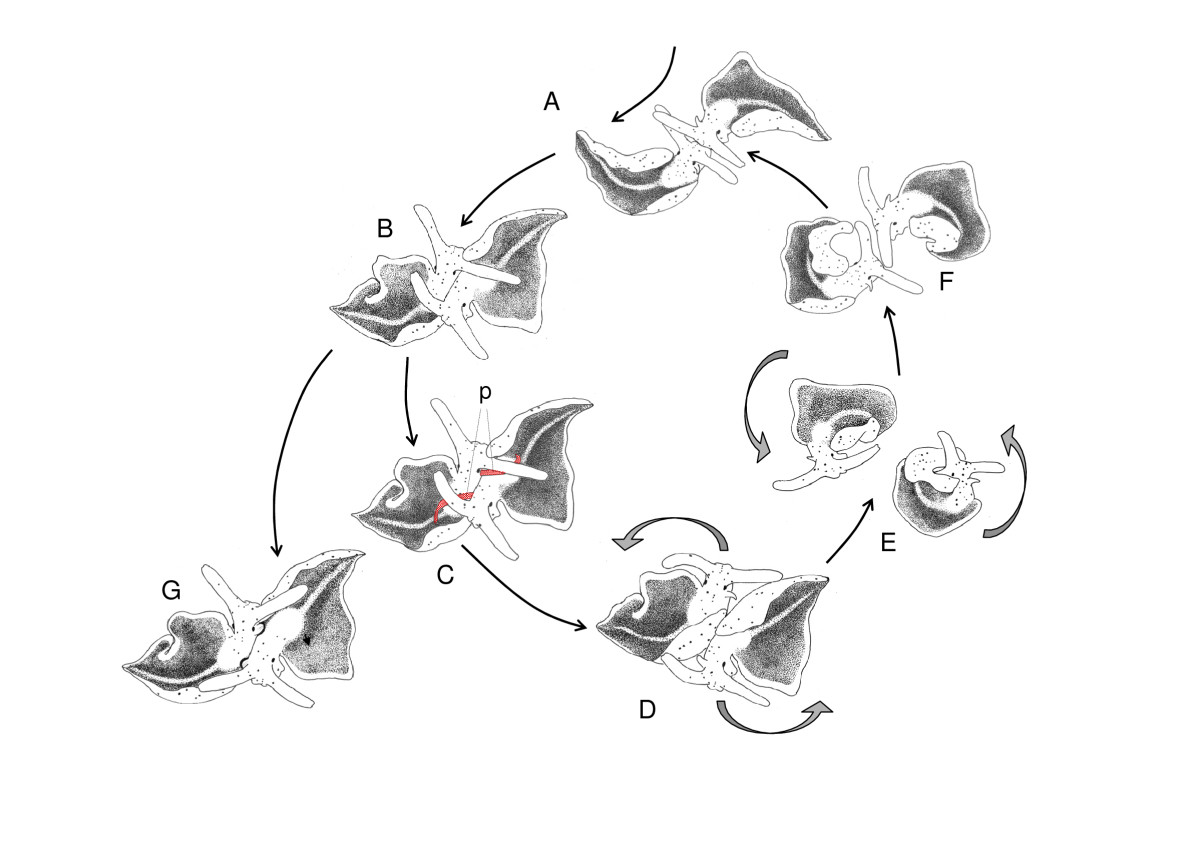 Drawing of mating of Elysia timida.